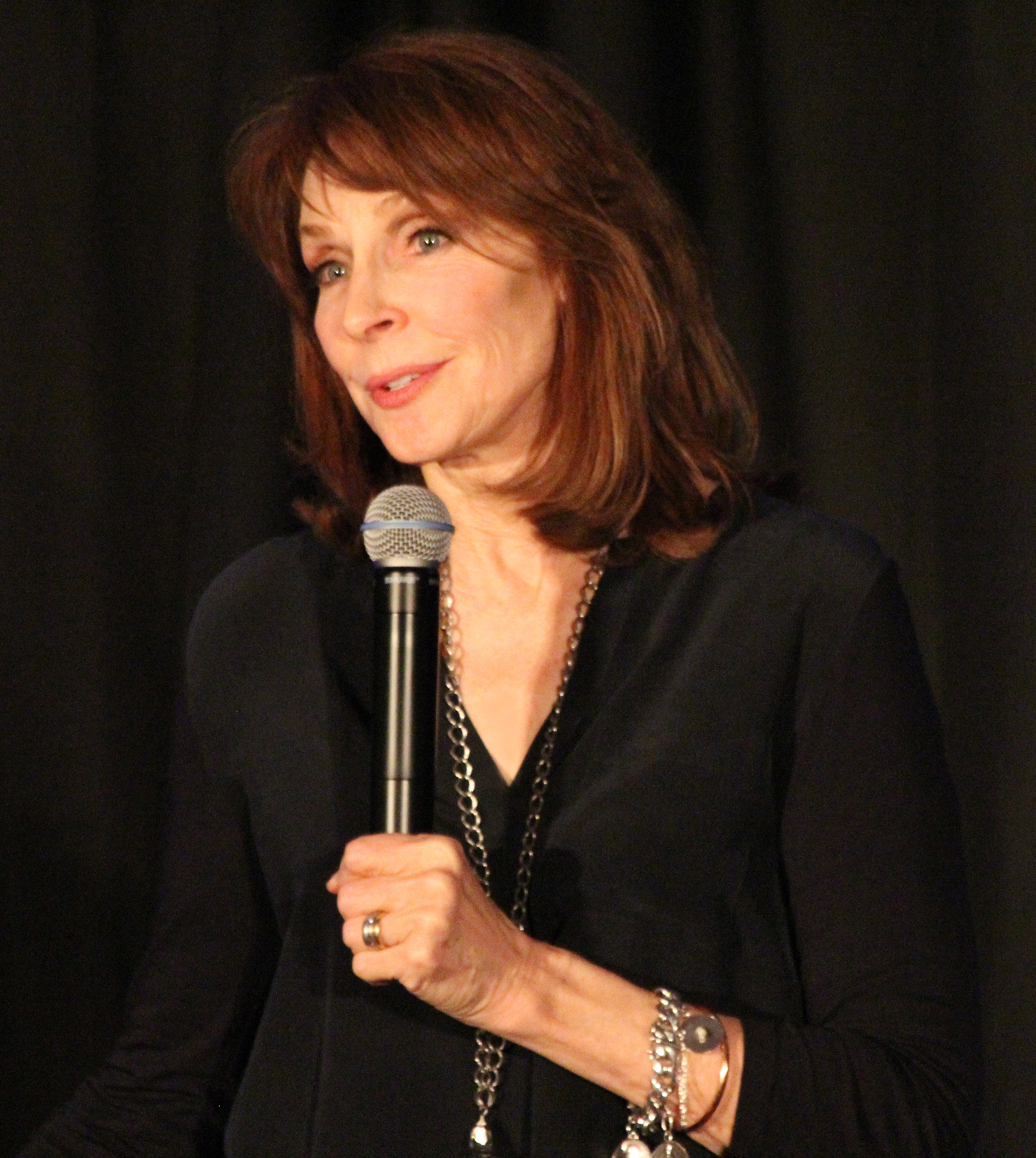 Gates McFadden, August 2016, at 50 Year Mission Tour Convention in New Jersey.